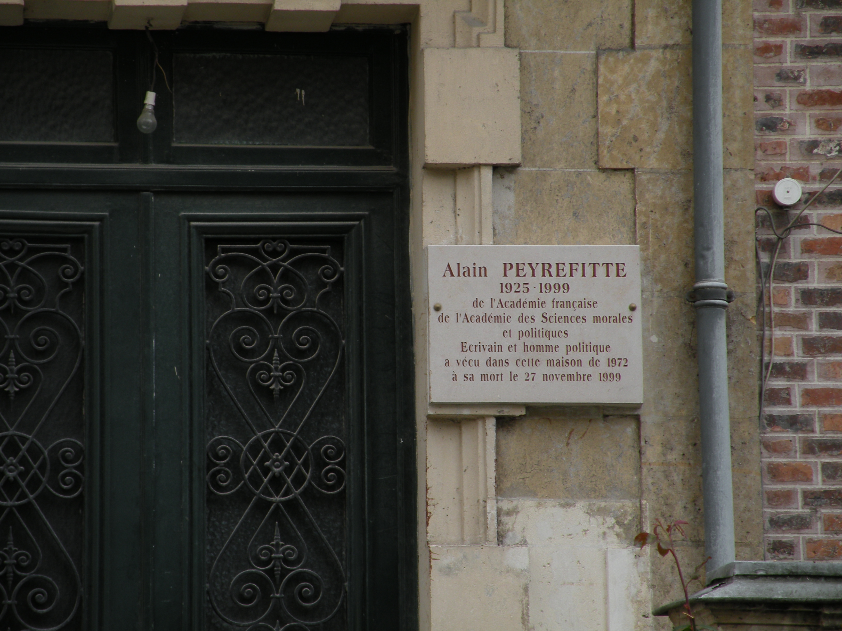 Alain Peyrefitte's house, 111 rue du Ranelagh in the 16th arrondissement of Paris.